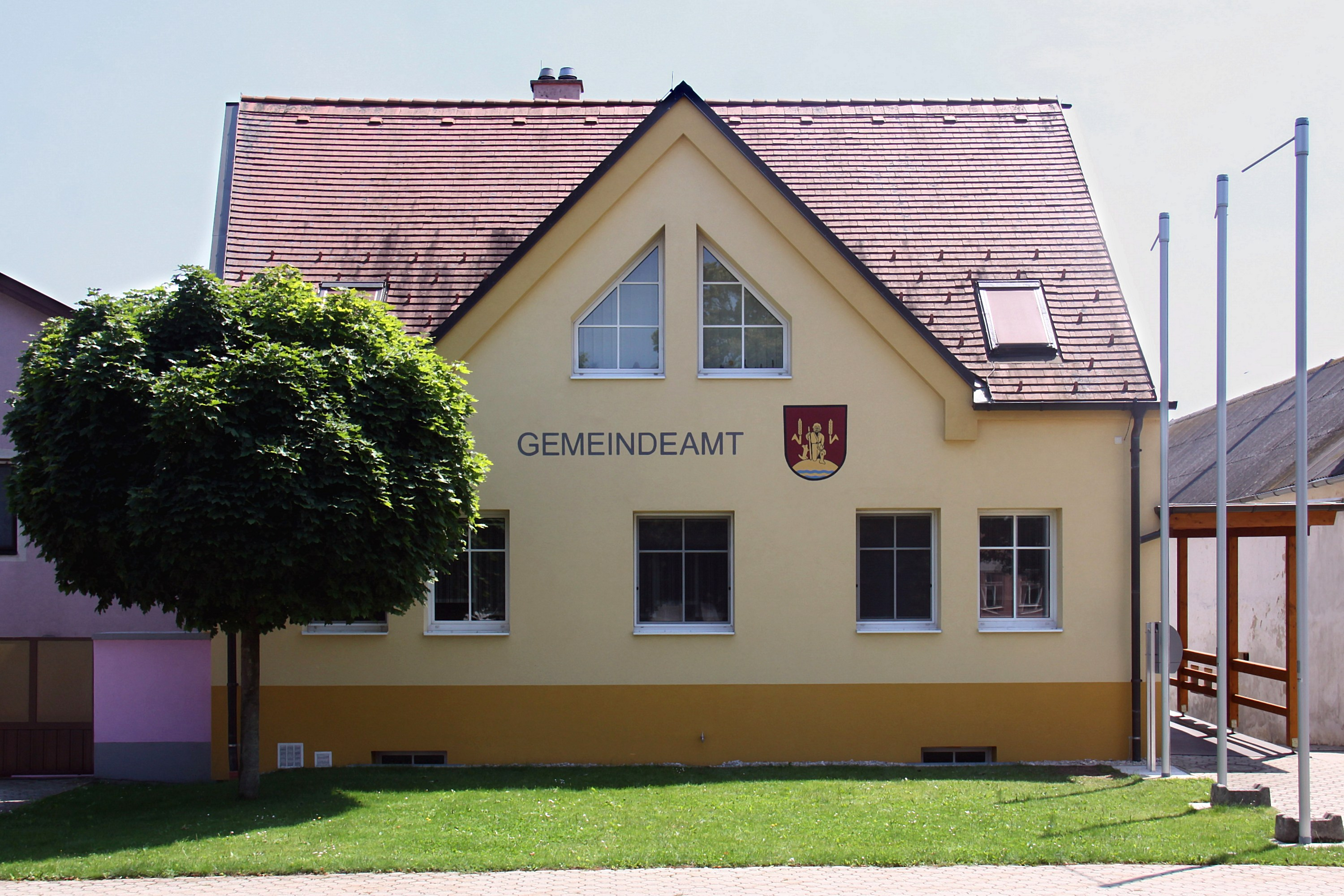 Lackendorf - municipal office